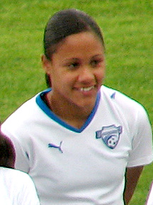 Alex Scott of the (WPS) Womens Professional Soccer Club, Boston Breakers.